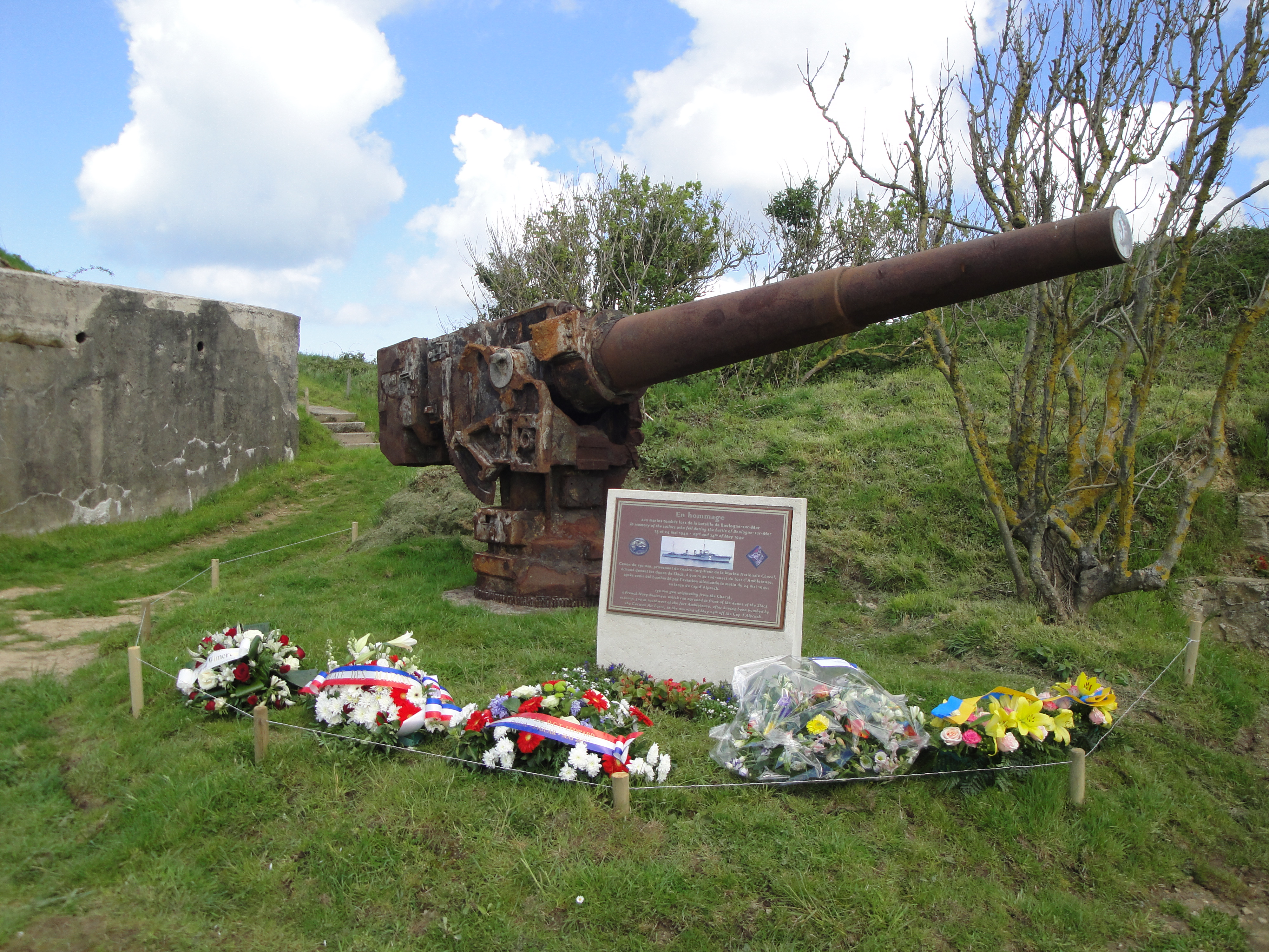 In memory of the sailors who fell during the battle of Boulogne-sur-Mer - 23rd and 24th of May 1940.